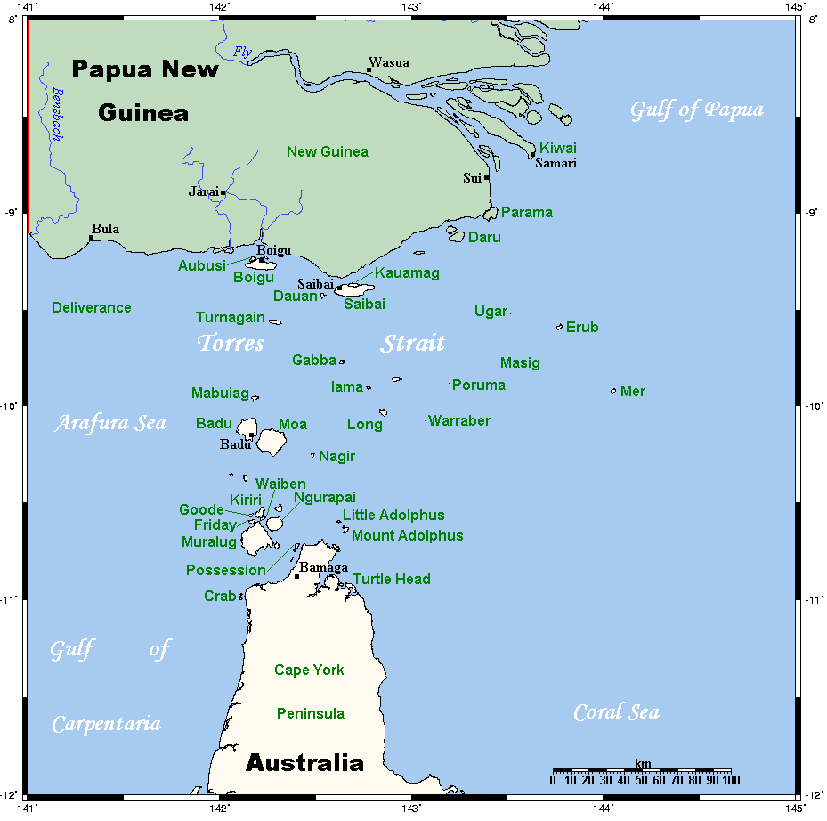 A map of the Torres Strait Islands. I have endeavoured to use native names wherever I could find them. If you can suggest ways in which this map could be made more up to date, don't hesitate to leave me a message to that effect. This map's source is here, with the uploader's modifications, and the GMT homepage says that the tools are released under the GNU General Public License.